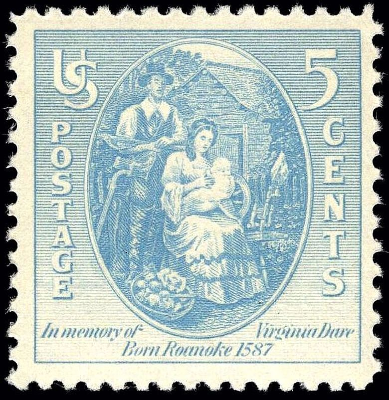 Image of Virginia Dare Commemorative stamp of 1937